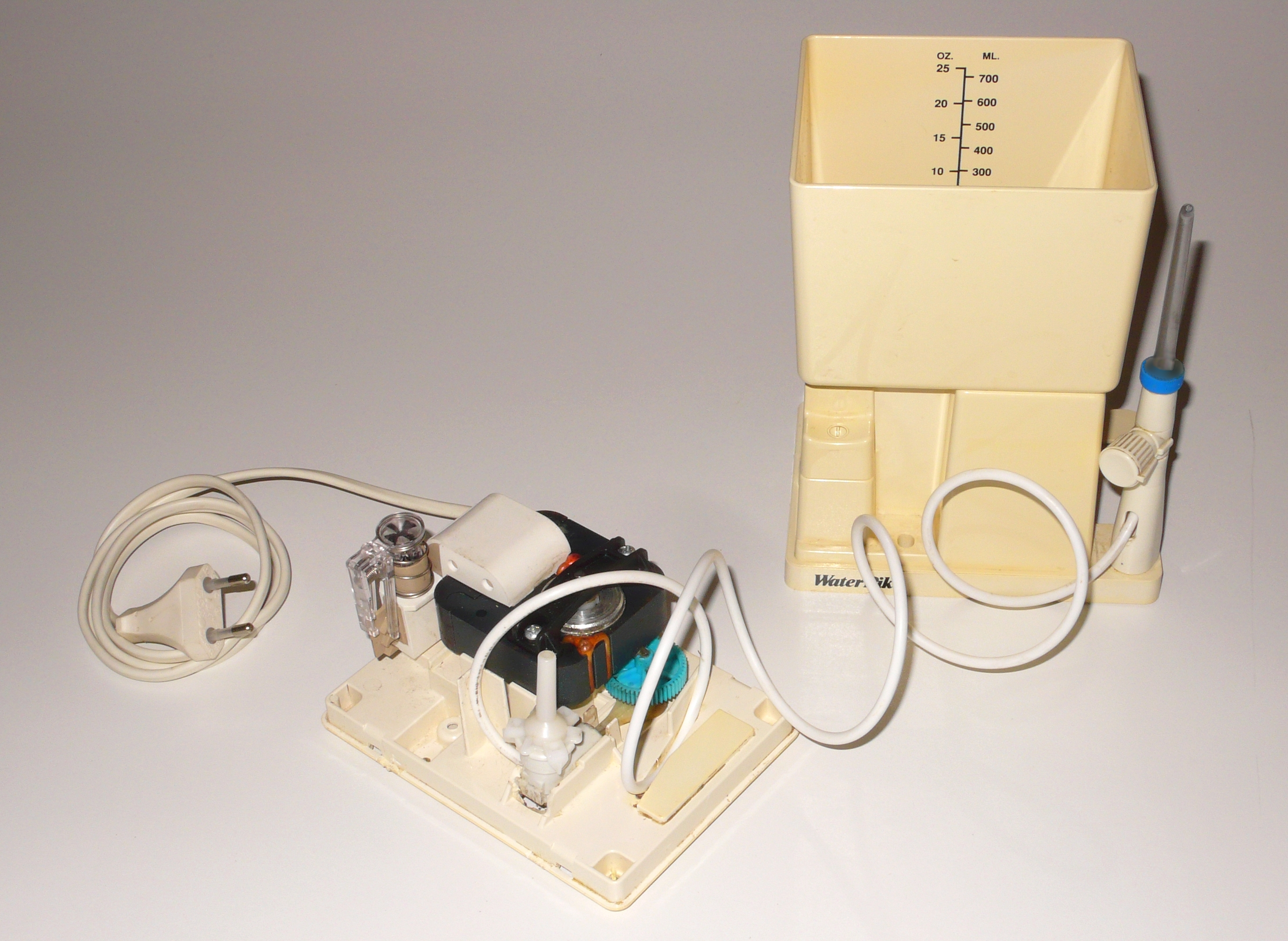 Water Pik